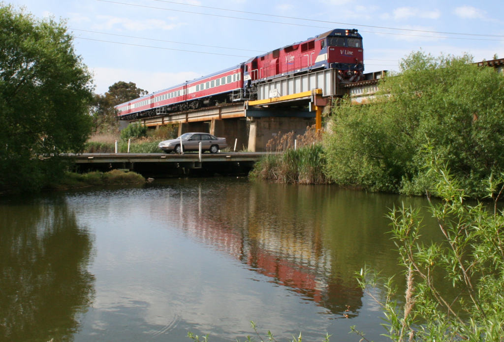 V/Line train crossing the Breakwater Bridge - Geelong, Victoria, Australia